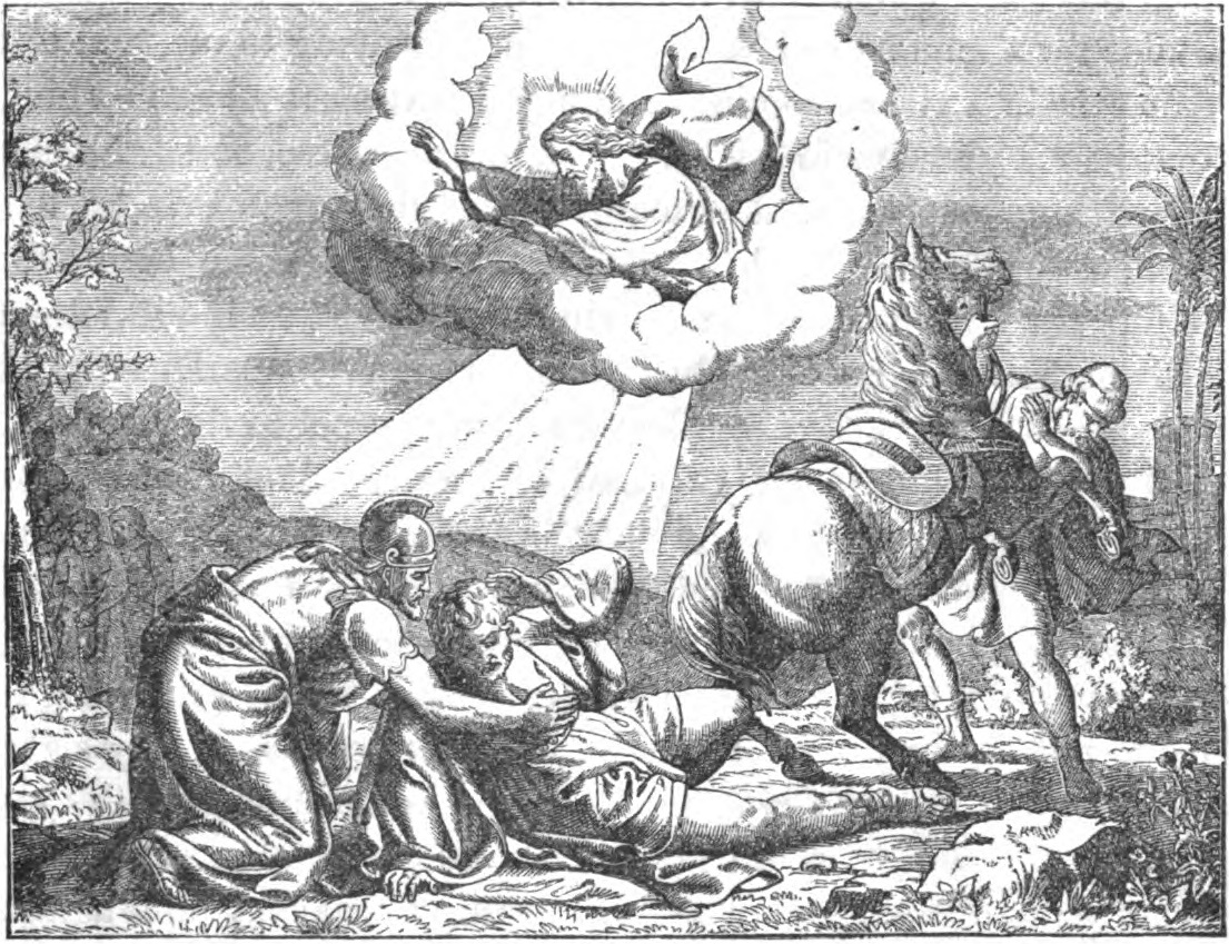 Saul's conversion.